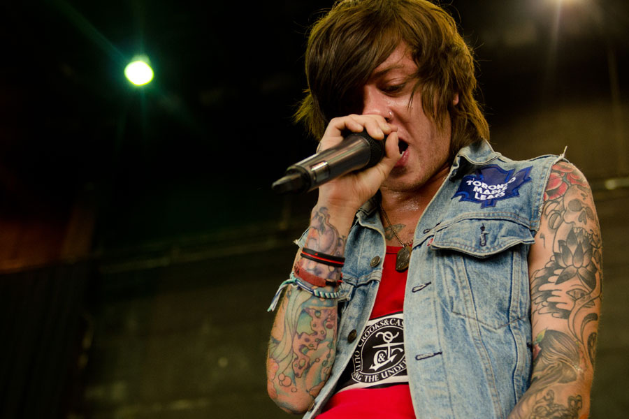 Breathe Carolina @ Vans Warped Tour in Atlanta, GA on July 26, 2012. This photo is licensed under a Creative Commons license. If you use this photo within the terms of the license or make special arrangements to use the photo, please list the photo credit as "Mark Runyon / " and link the text to